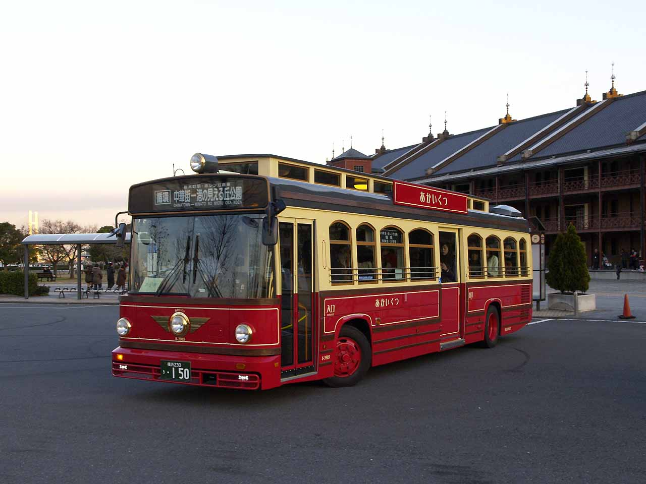 Fleet of Yokohama City Bus, for sightseeing route "Akaikutsu" 6th car since November 2008. Model: Hino Rainbow BDG-HR7JPBE Body customize: Tokyo Special Coach License plate: KNY230 KI-150 Base: Honmoku Dept. Place: Yokohama Red Brick Warehouse busstop